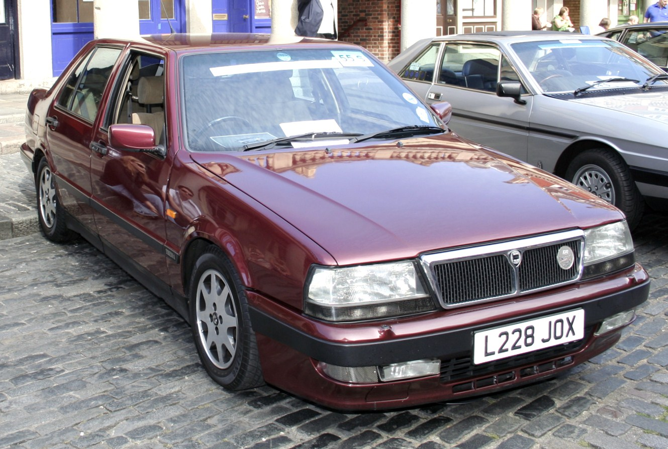 Lancia Thema facelift